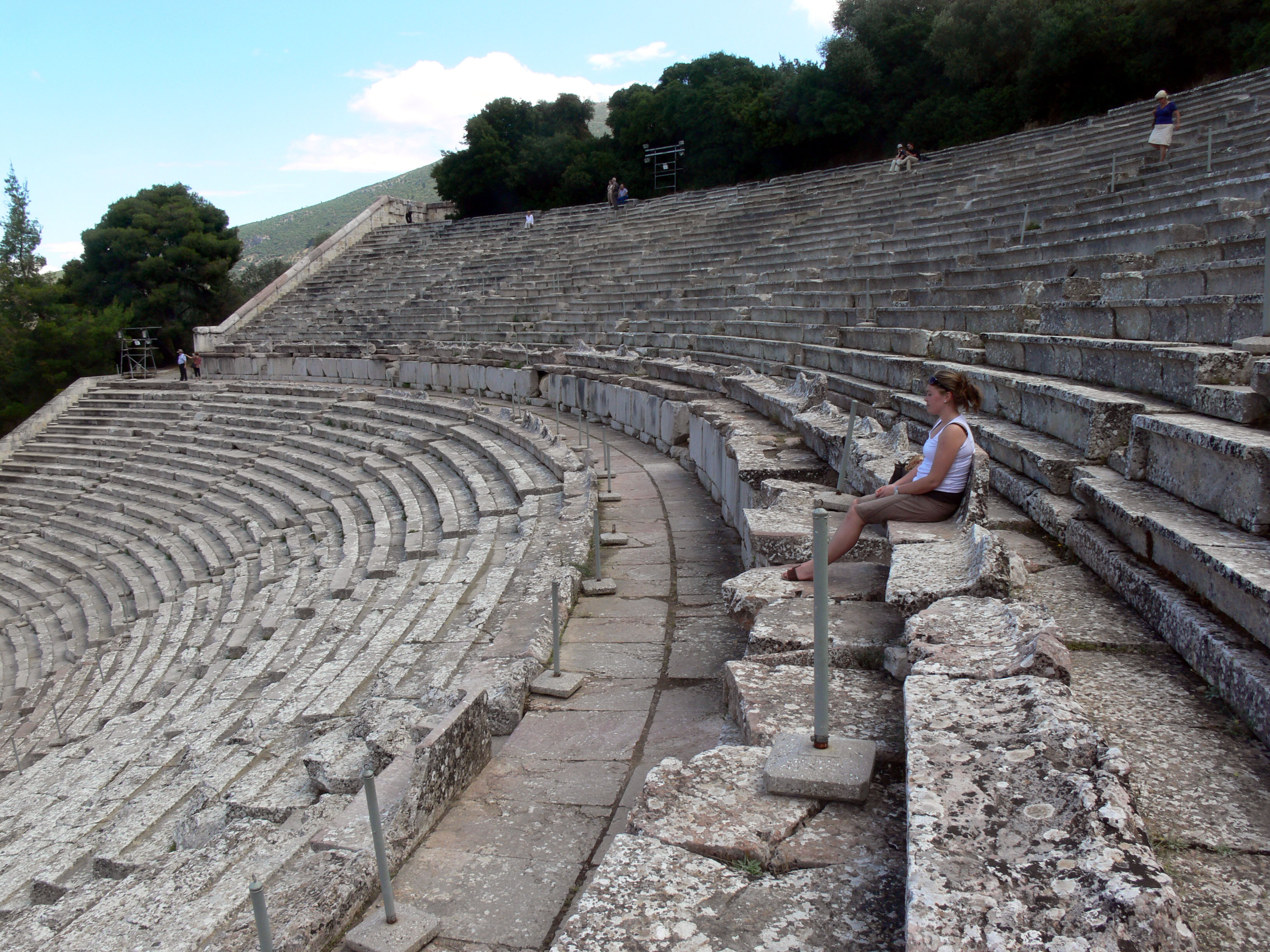 Amphitheater in Epidaurus